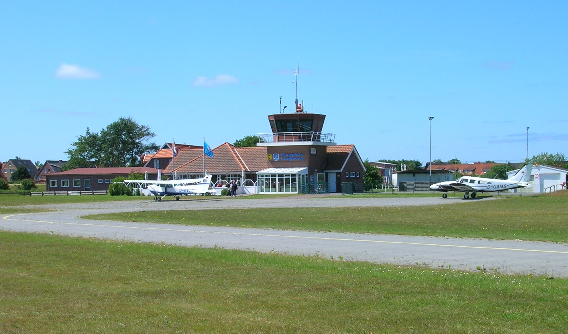 Langeoog Airport: tower/restaurant, view from the taxiway Verkehrslandeplatz Langeoog: Tower/Restaurant von der Rollbahn aus gesehen